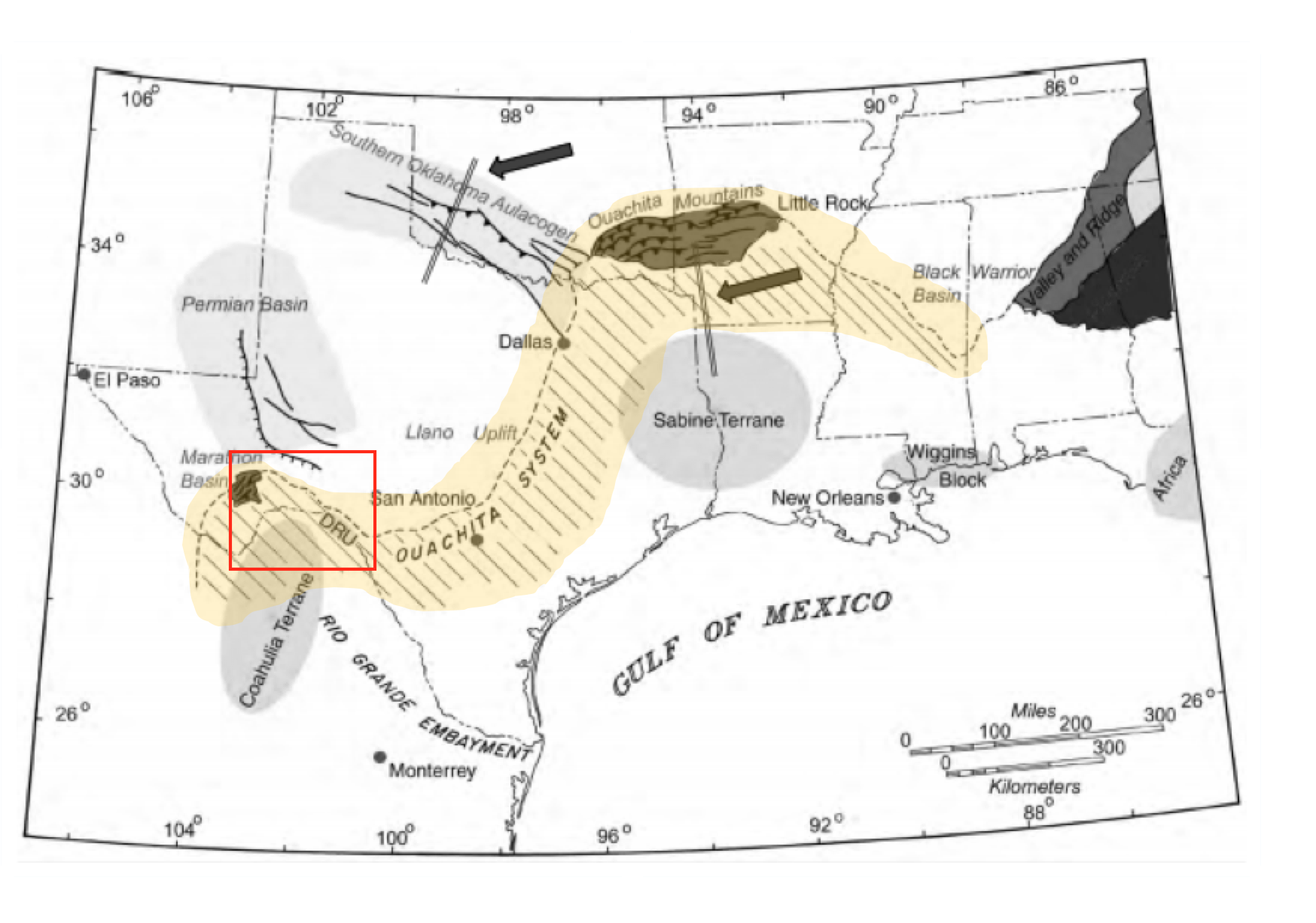 Location of the Val Verde Basin relative to the Ouachita System